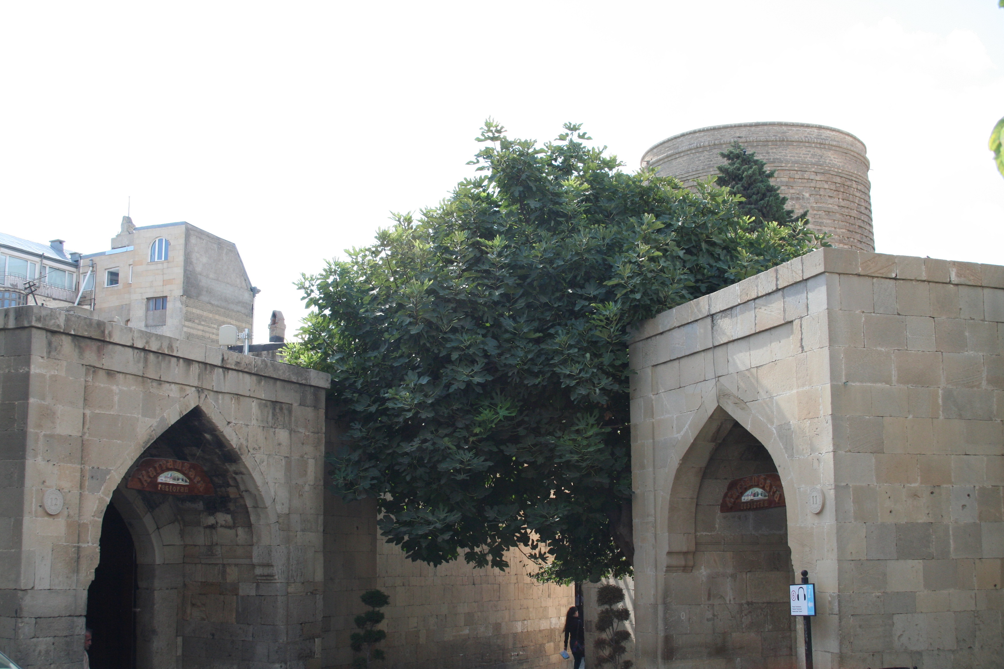 Multani Caravanserai (left) and Bukhara Caravanserai (right)